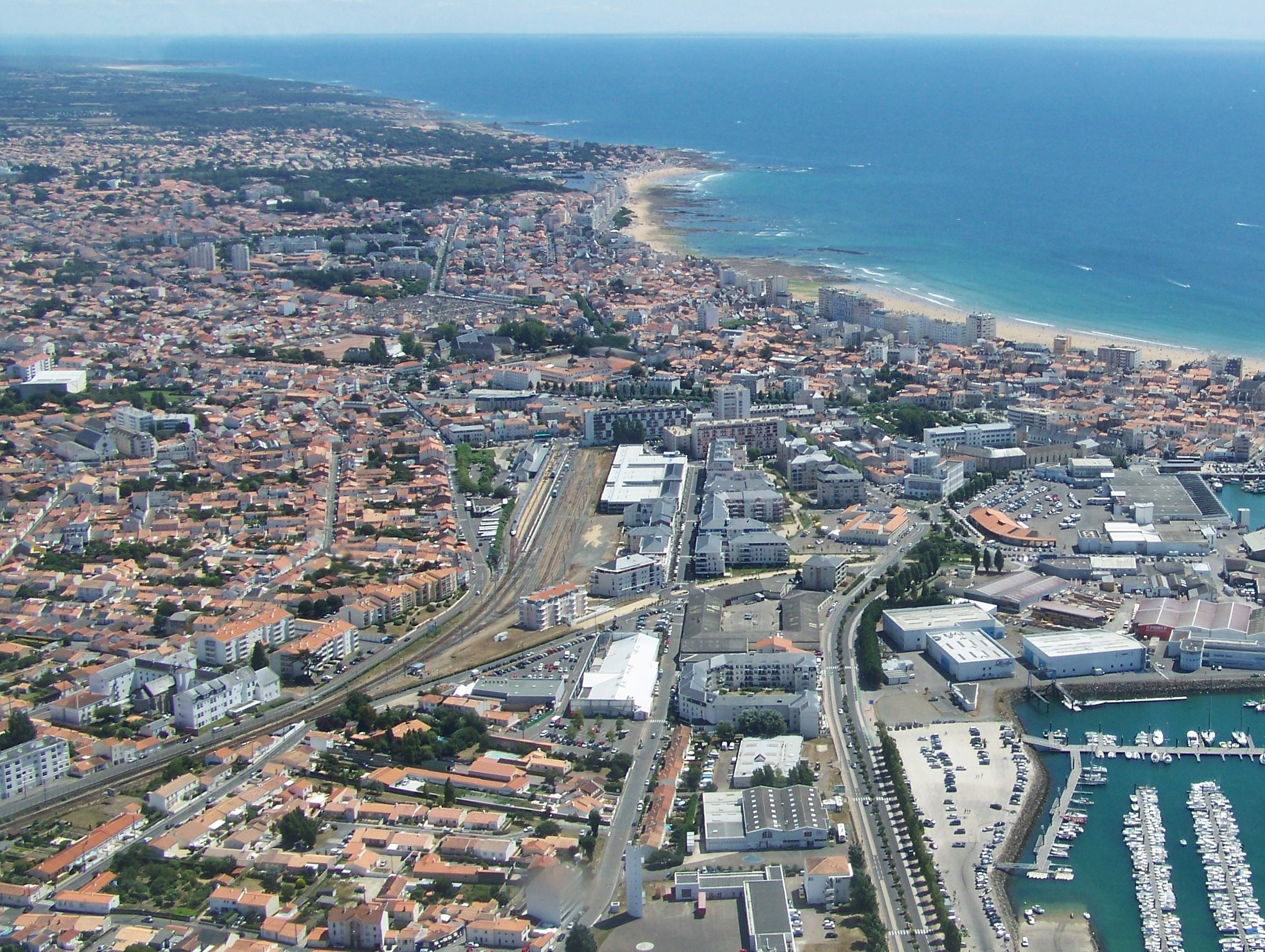 Aerian sight of French city of Les Sables d'Olonne on the Atlantic coast (Vendée), with at the center the railway station.